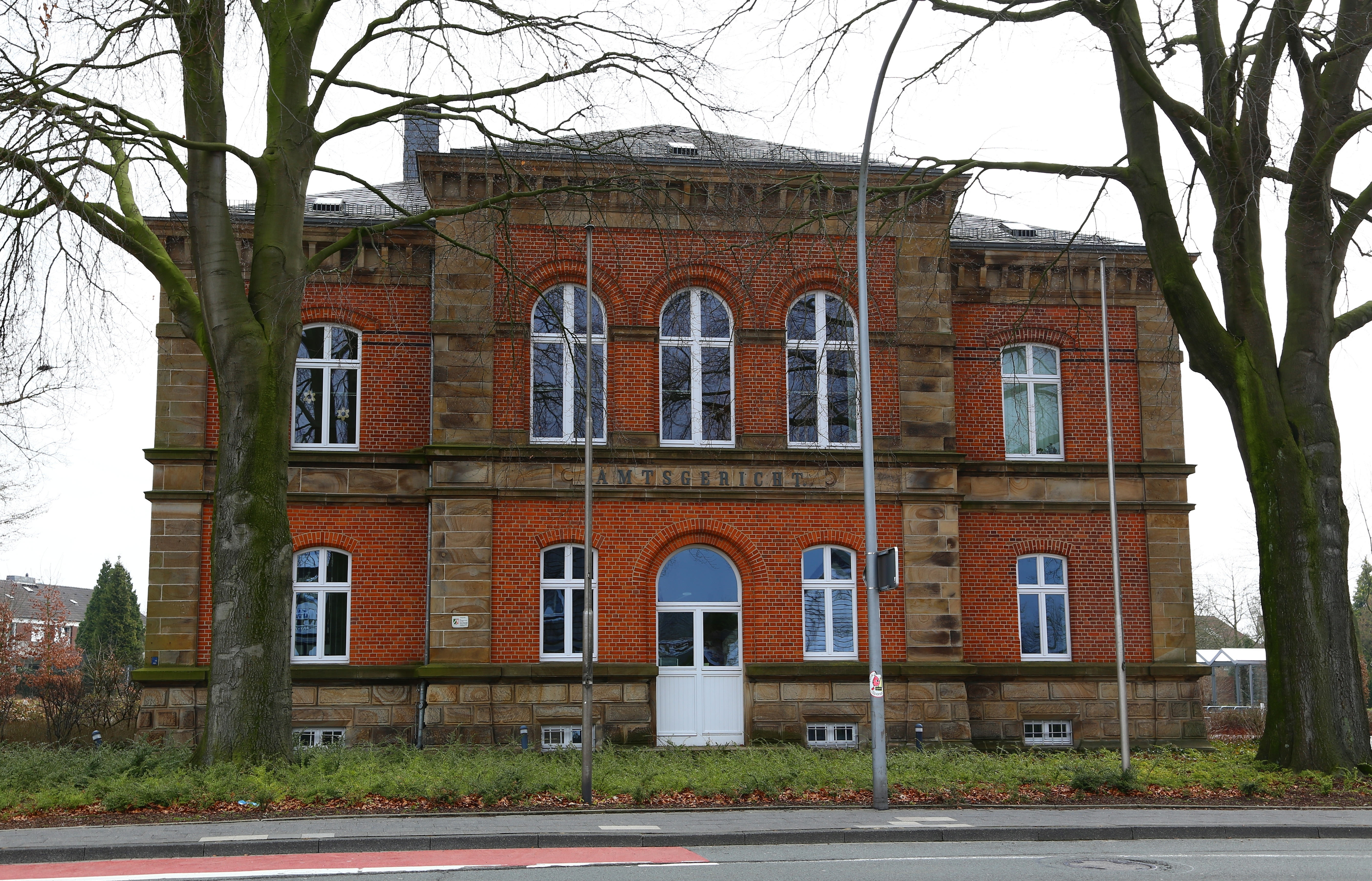 Ibbenbüren Courthouse (Amtsgericht Ibbenbüren) in Ibbenbüren, Kreis Steinfurt, North Rhine-Westphalia, Germany. The building is a listed cultural heritage monument.